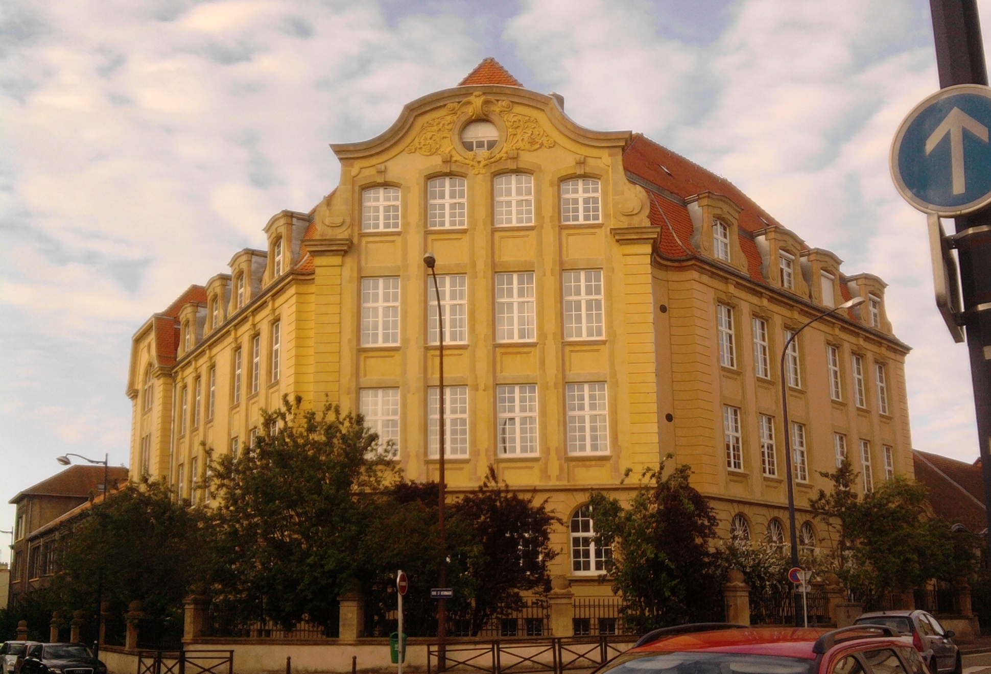 Photography of the collège François-Rabelais, in Metz. German style, begginnig of XXth century.